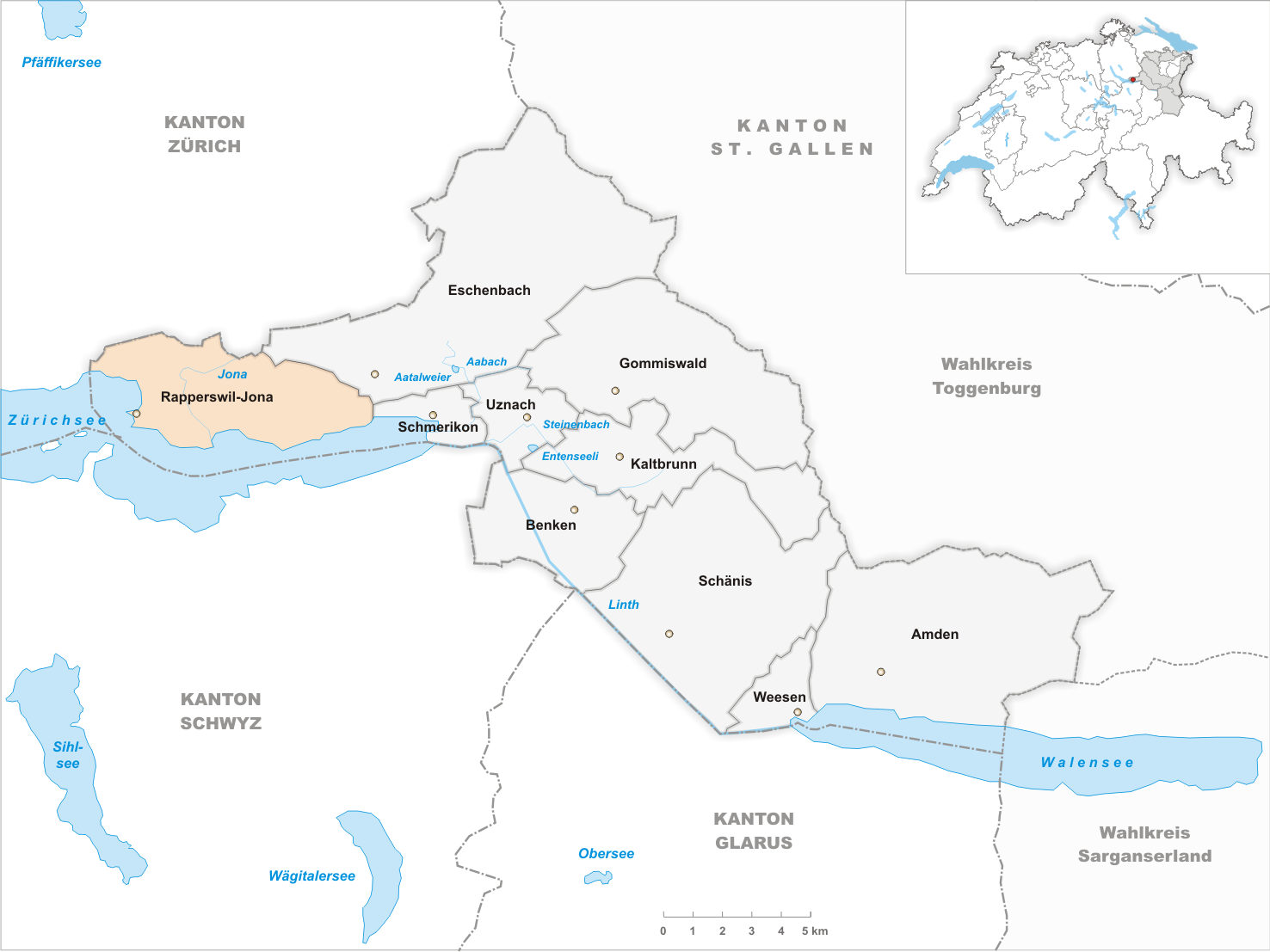 Municipality Rapperswil-Jona